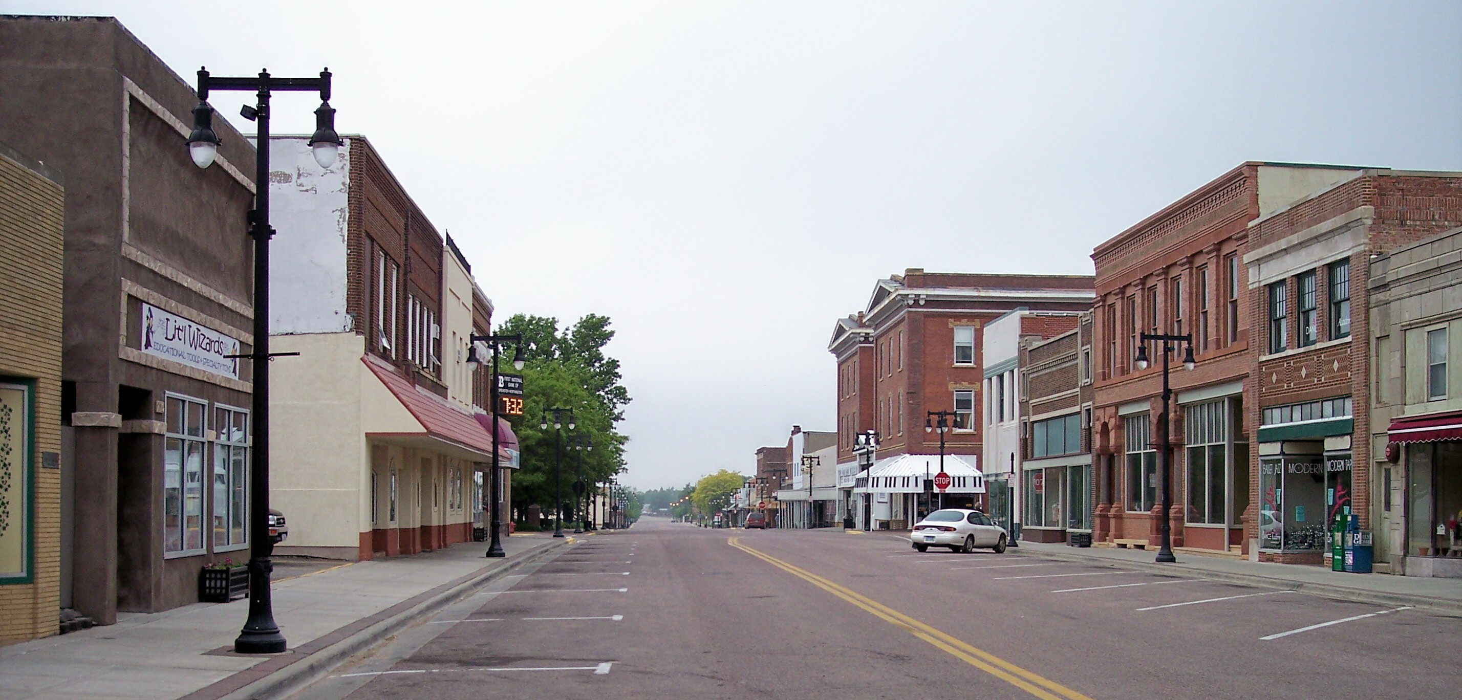 10th Street (County Road 25) in Worthington, Minnesota.